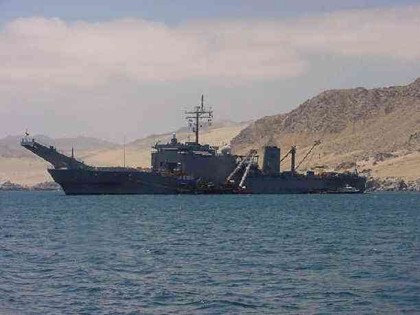 Caleta Cifuncho Bay, Chile. Following the grounding on the rocky coast of Chile, 12 September 2000, USS La Moure County (LST-1194) underwent emergency repairs in Cifuncho Bay, to make her seaworthy for the 700 mile tow to Talcahuano, Chile. After getting underway October 28th, she arrived at Talcahuano on the 31st, under tow by the Chilean icebreaker Oscar Viel Toro. This was her final port, as repairs to her severely damaged hull and machinery were judged to be uneconomical. She is seen here at anchor in Cifuncho Bay, where she lay from September 12th to October 28th.